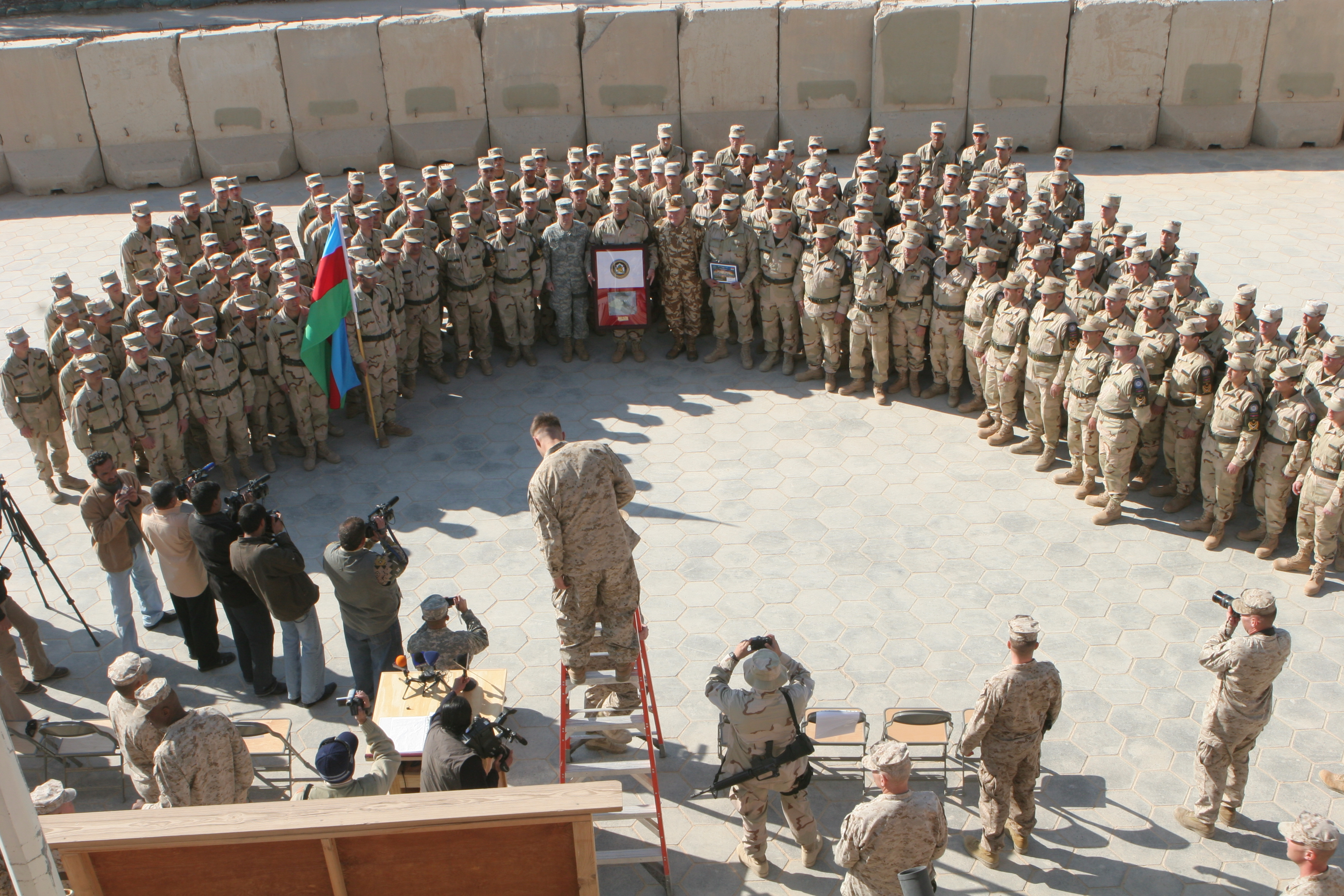 Members of the Azerbaijani military pose for a group photo during a recognition ceremony held by Regimental Combat Team 5 at Camp Ripper, Al Asad, Iraq, Dec. 3, 2008. The Azerbaijan forces provided security at the Haditha Dam since August of 2003. VIRIN: 081203-M-8299S-070